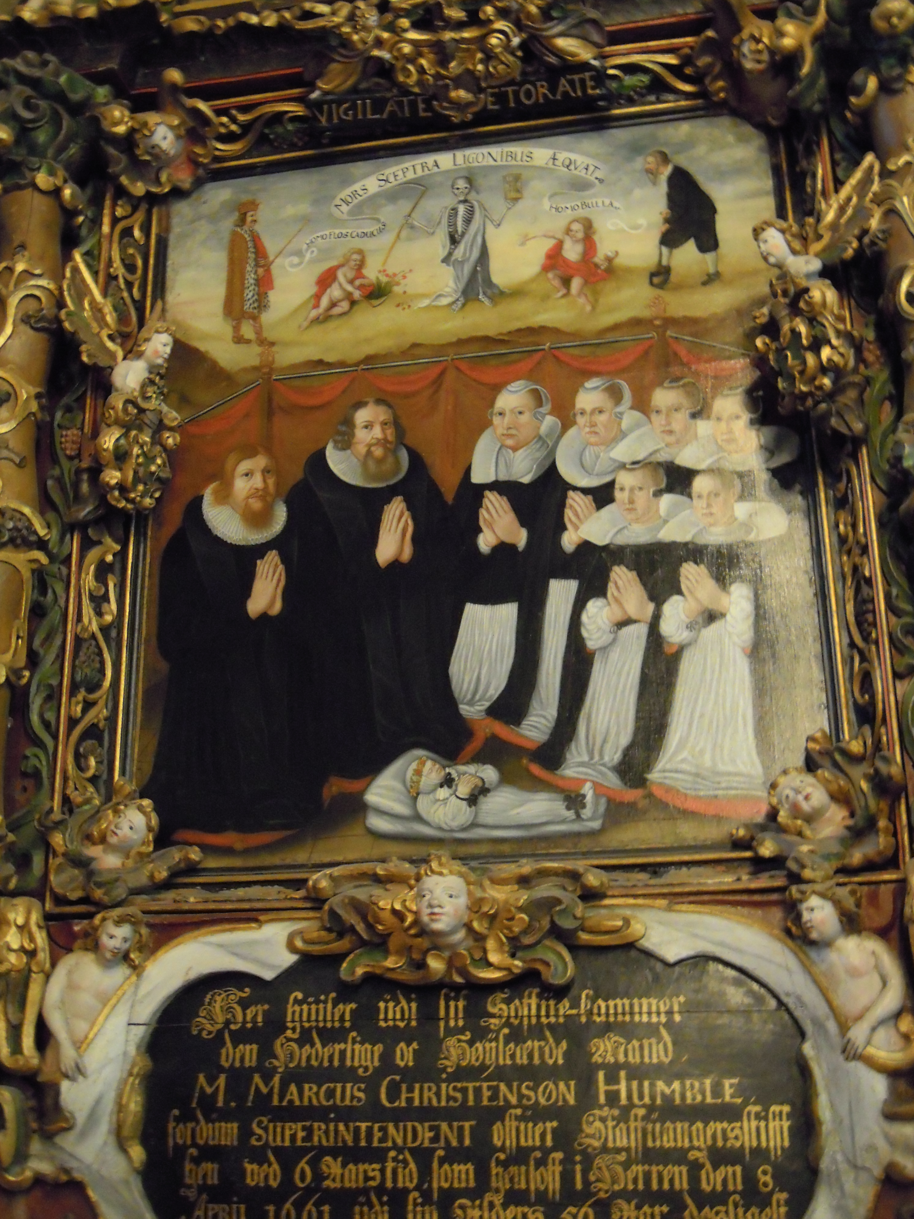 Marcus Christensen Humble, bishop Stavanger